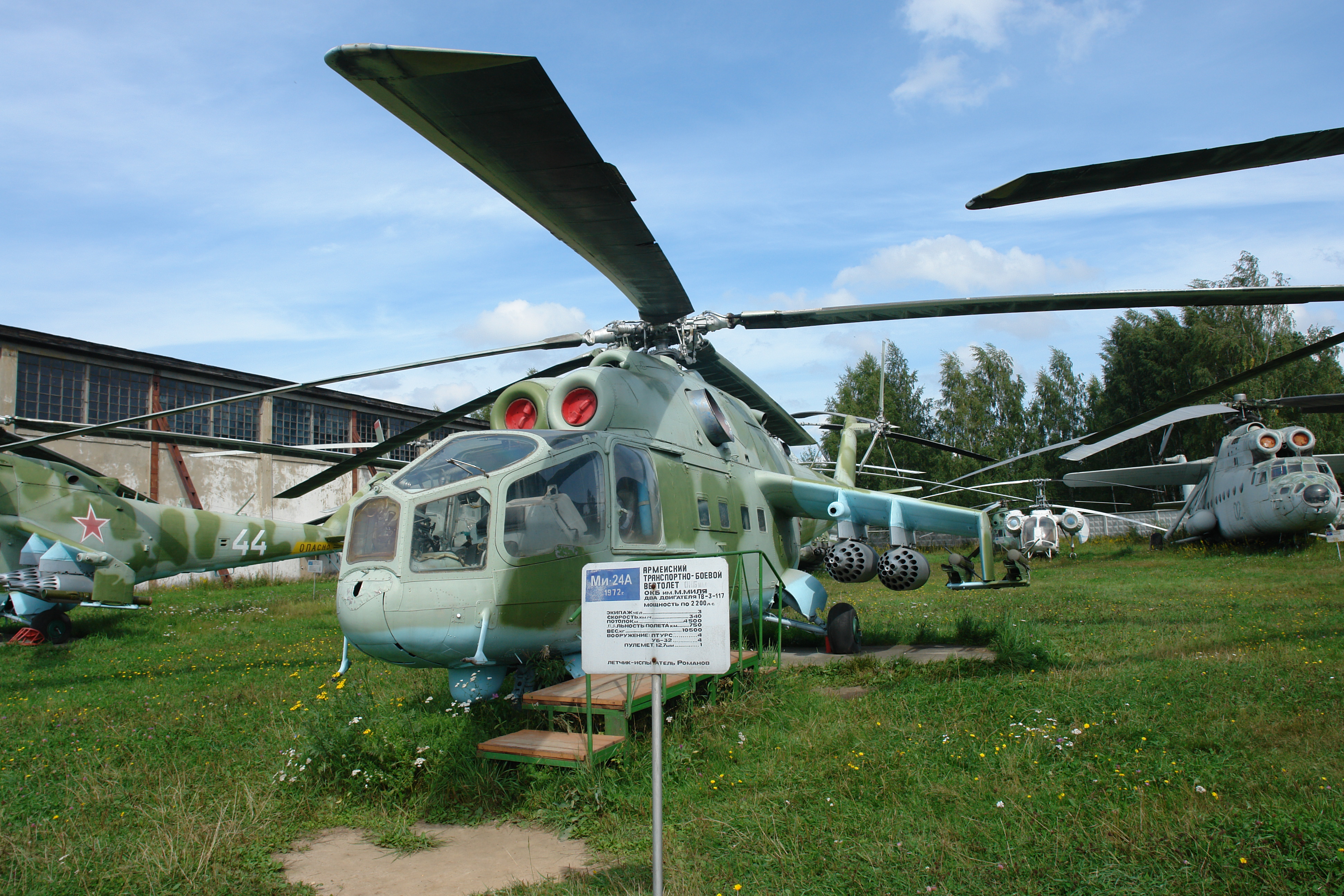 Mil Mi-24A (Hind-A) at Monino Central Air Force Museum (Moscow).